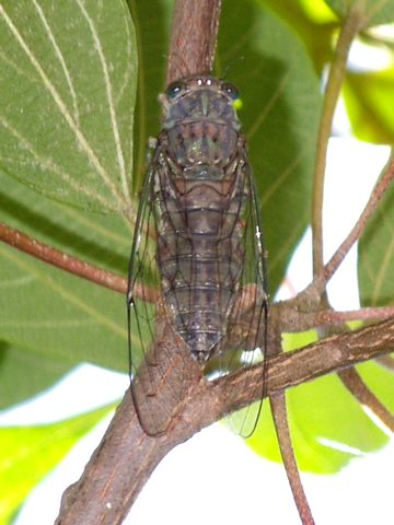 Euterpnosia chibensis, in Nagasaki